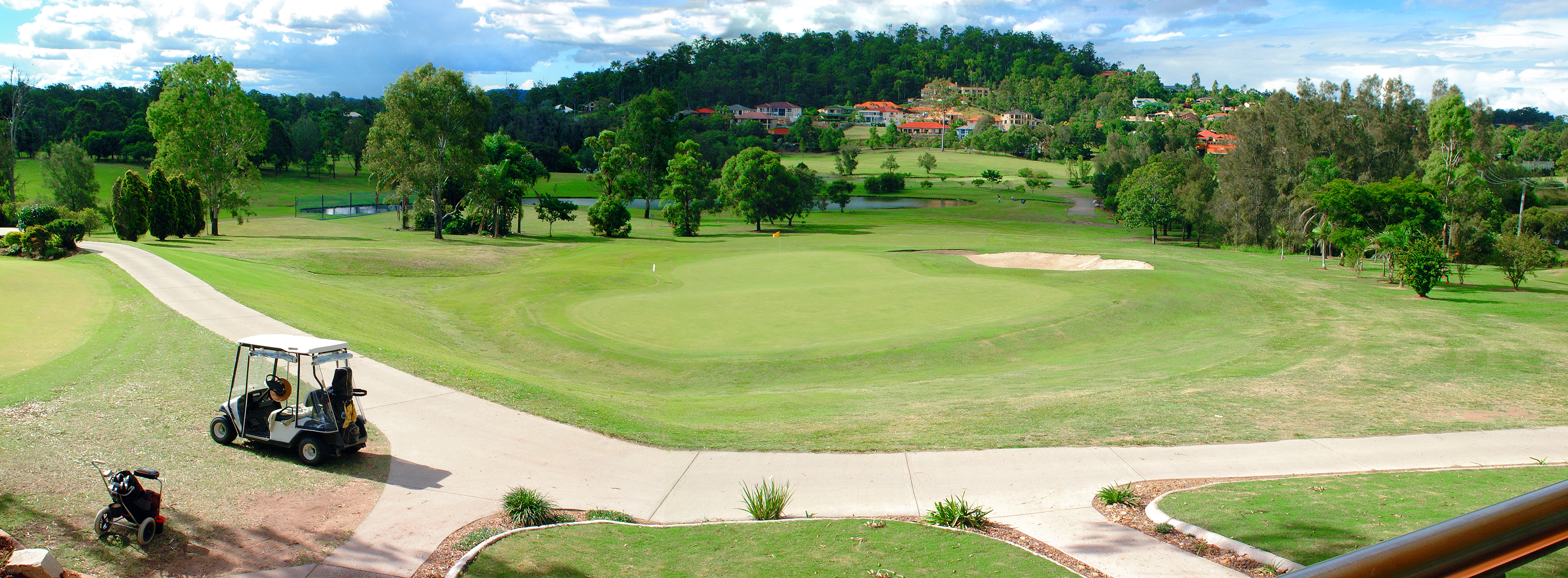 Photo of 18th green taken from Function Room balcony.